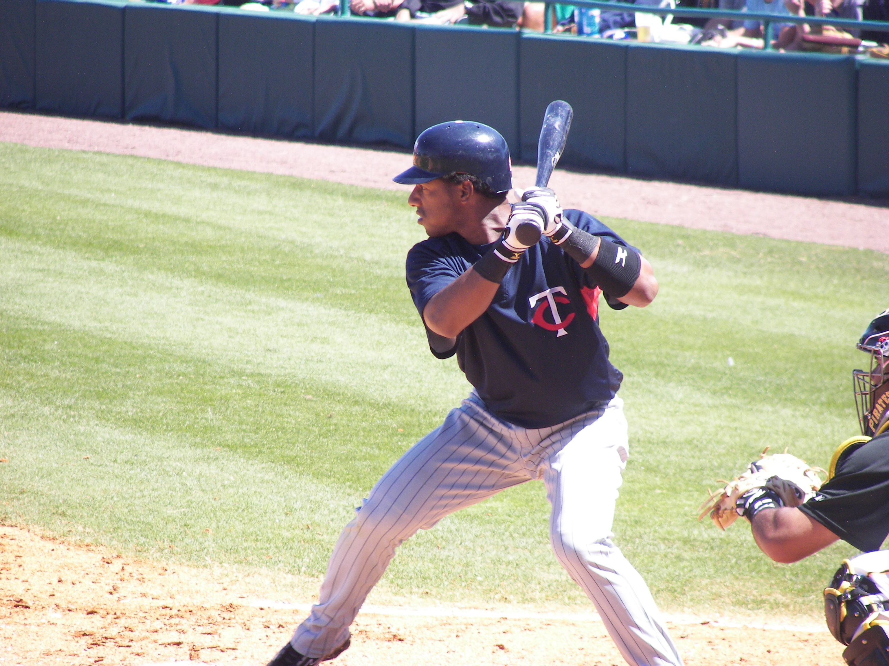 Minnesota Twins infielder Alexi Casilla during a Twins/Pittsburgh Pirates spring training game at McKechnie Field in Bradenton, Florida.